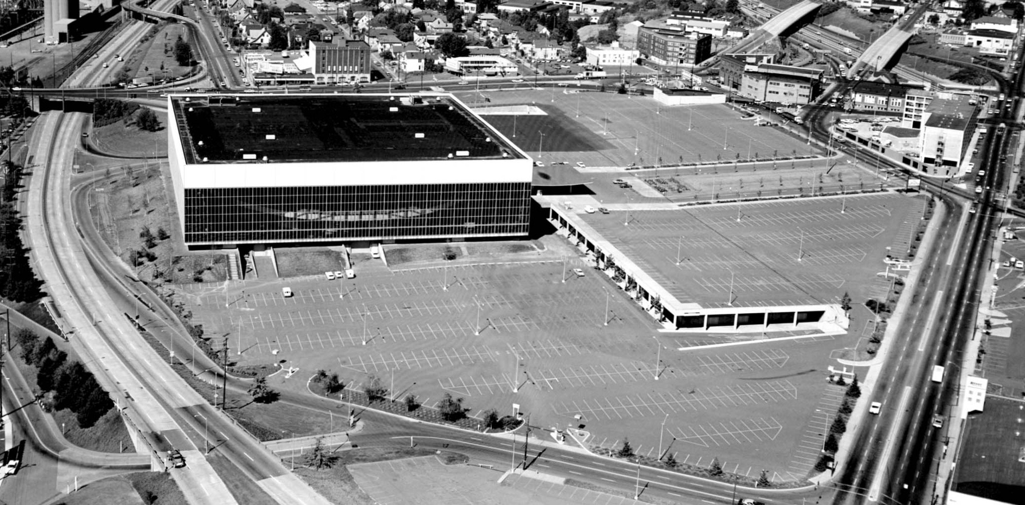 The Veterans Memorial Coliseum in Portland Oregon